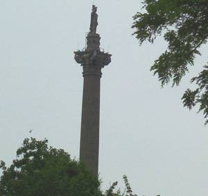 Brock Monument at Queenston Heights overlooking the Niagara River My own photo